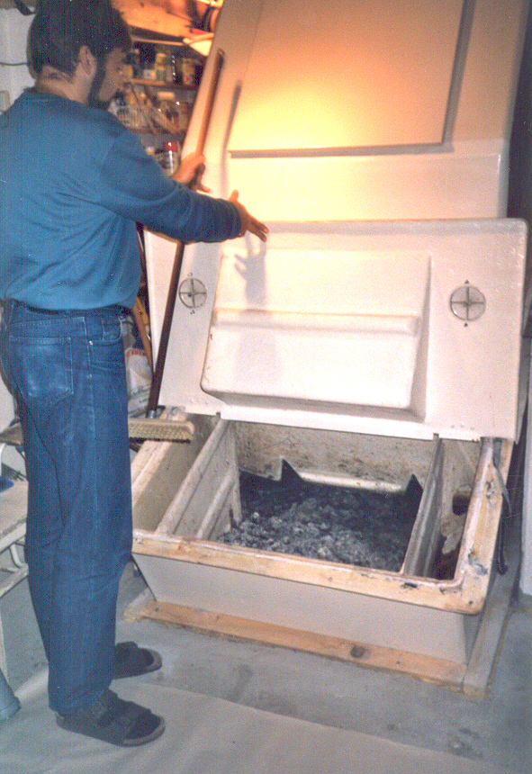 The lid of the removal chamber is designed as stand area for maintenance work at the composting chamber above. The installation is situated in a town house at the ecological settlement Hamburg-Allermöhe, Hamburg, Germany Photo by Wolfgang Berger, 2004